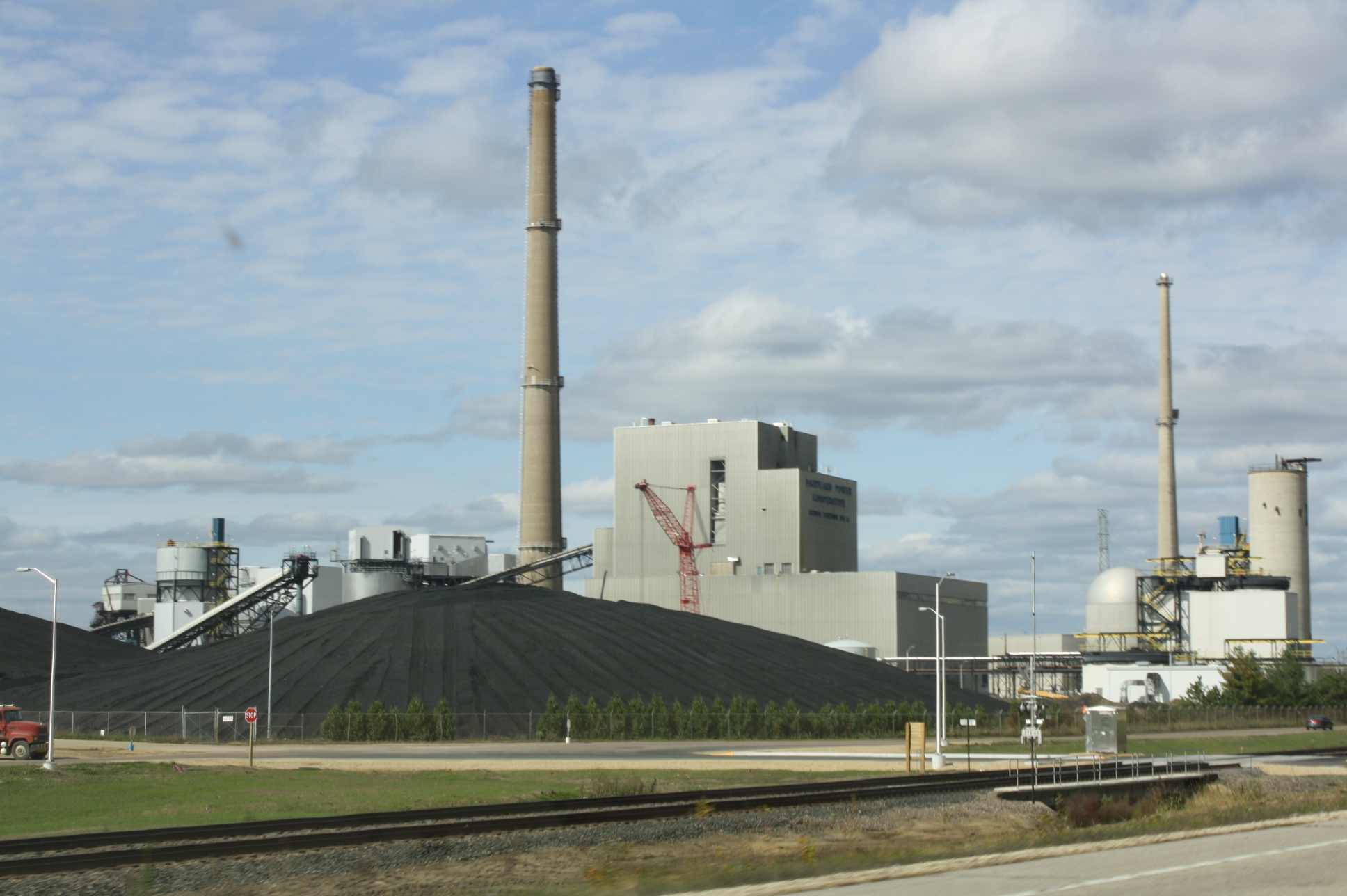 The Dairyland Power Cooperative power plant near Genoa, Wisconsin along Wisconsin Highway 35. The Genoa Generating Station, a coal-burning facility, is located in the foreground. The La Crosse Boiling Water Reactor is located on the right, a decommissioned nuclear power station.